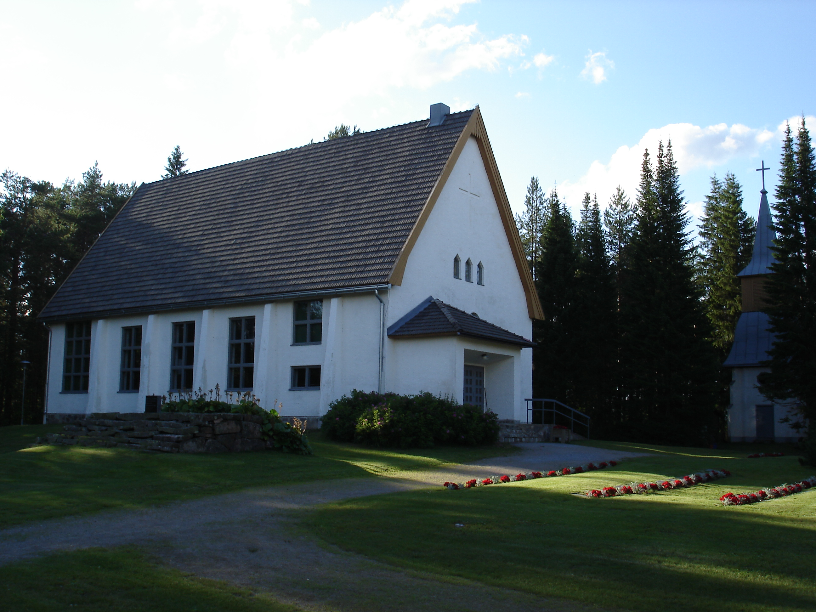 Turtola Church in Pello, Finland